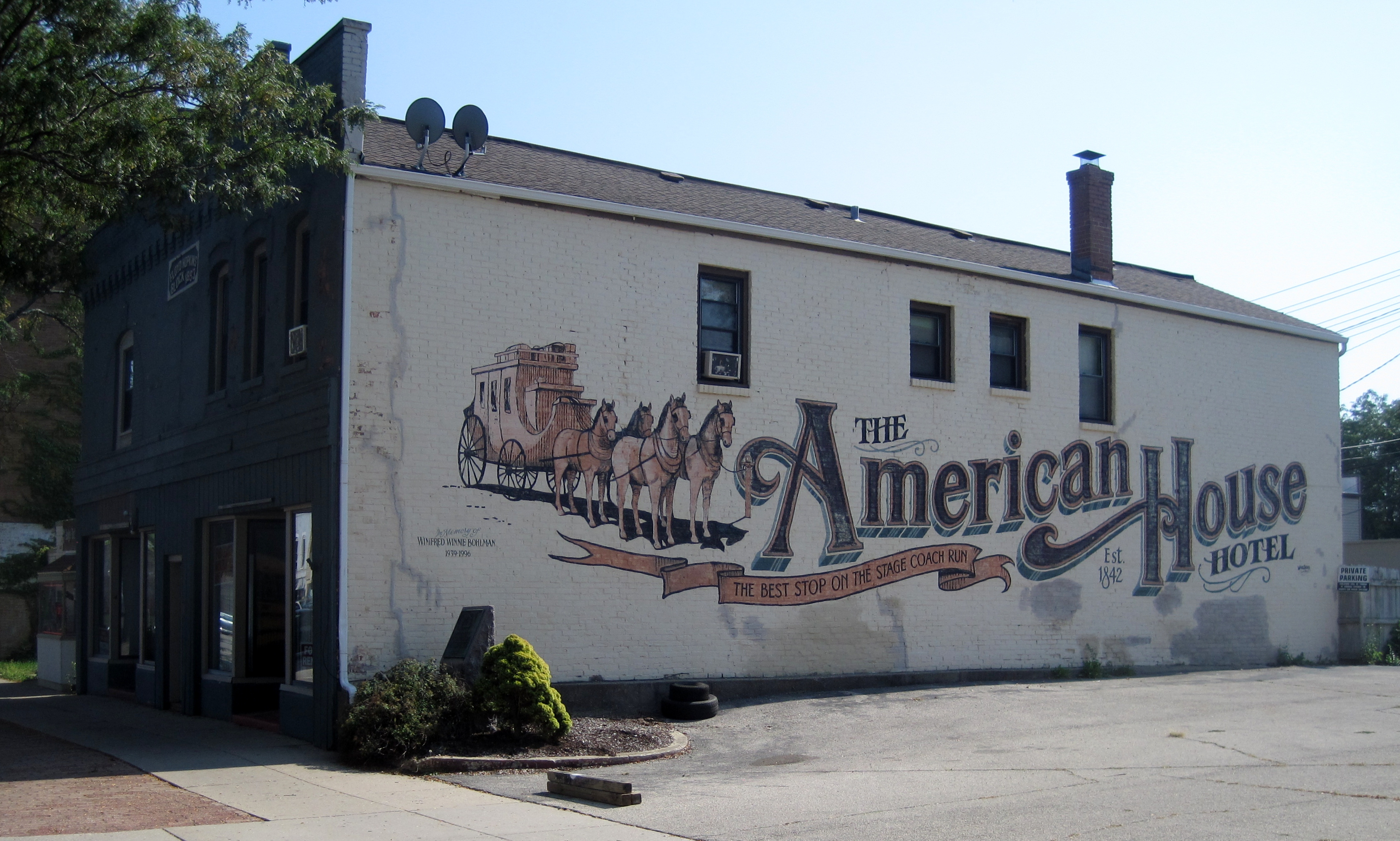 Floyd Hopkins Block in the Belvidere North State Street Historic District (c. 1893). It is built on the site of the 1842 American House Hotel, a prominent stop on the stagecoach road between Chicago and Galena.